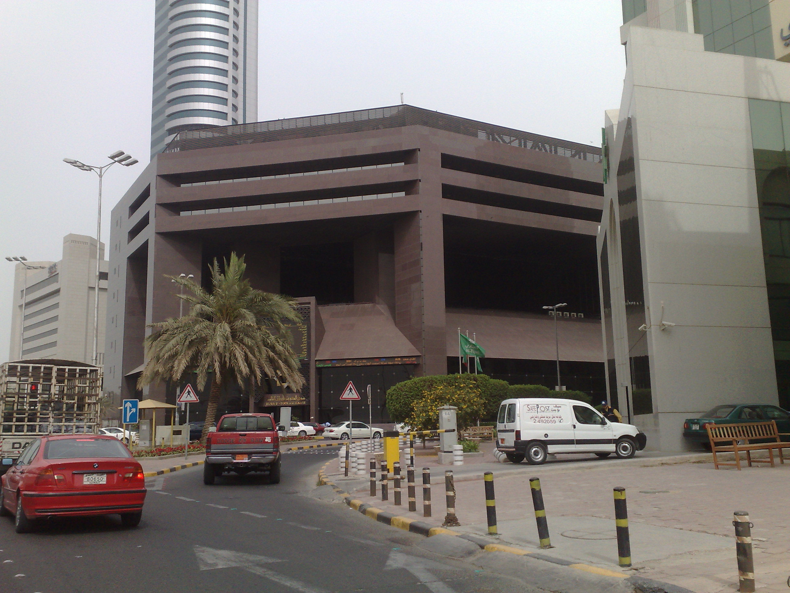 Kuwait Stock Exchange in Kuwait city.